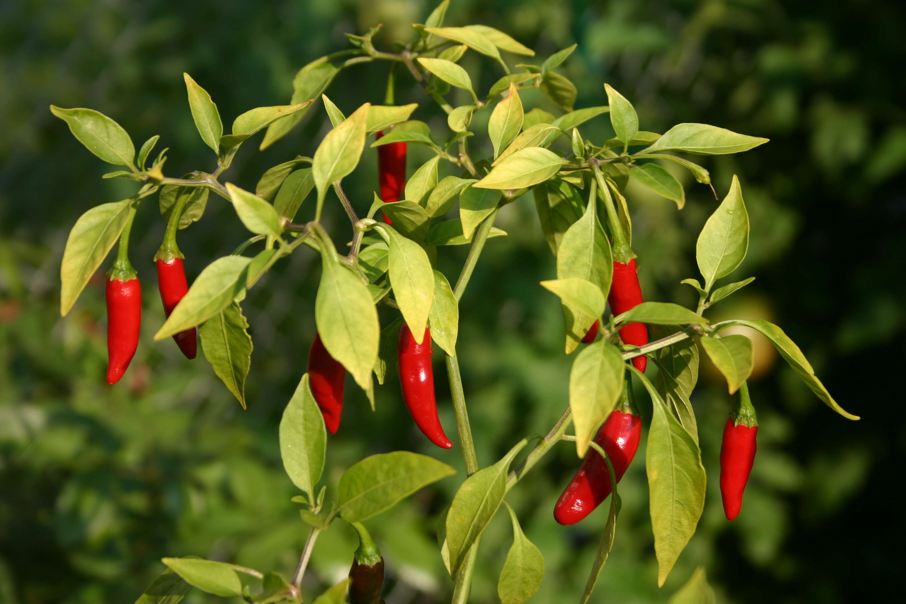 Thai peppers (note: Variety native to Thailand, but grown in Virginia, USA)